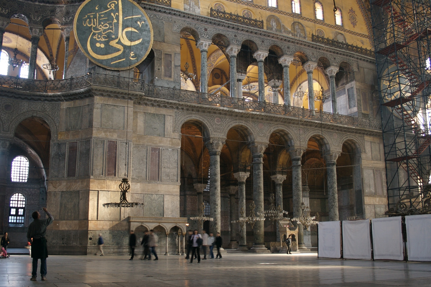 Main chamber of the Hagia Sophia in Istanbul